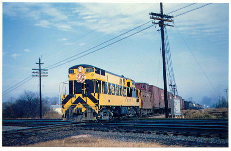 VGN 36 Fairbanks-Morse H16-44 diesel locomotive Source: from M.D. Fisher postcard collection